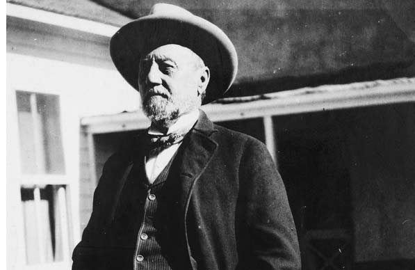 Rancher Henry Clay Hooker founded the Sierra Bonita Ranch near present-day Wilcox, Arizona.